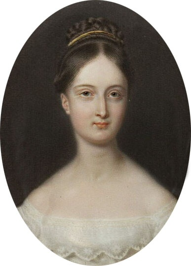 Portrait of Marie d'Orléans (1813-1839) future Duchess Alexander of Württemberg